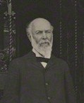 Sir John Eldon Gorst, statesman